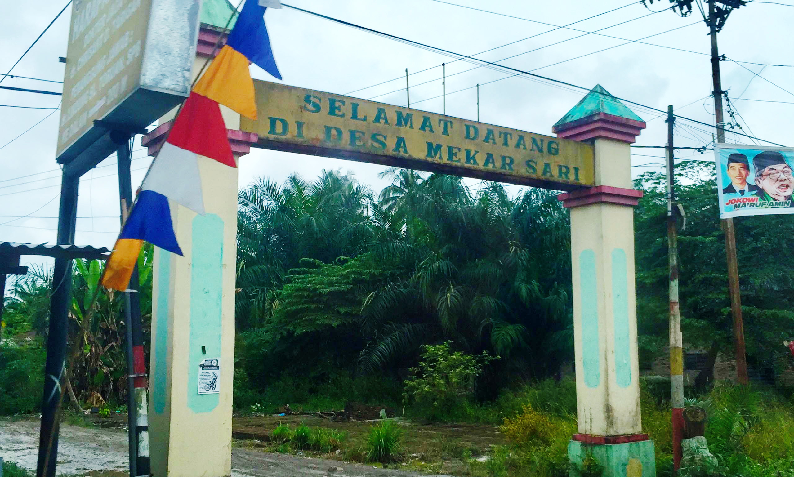 welcome gate to Mekar Sari, Pulau Rakyat, Asahan